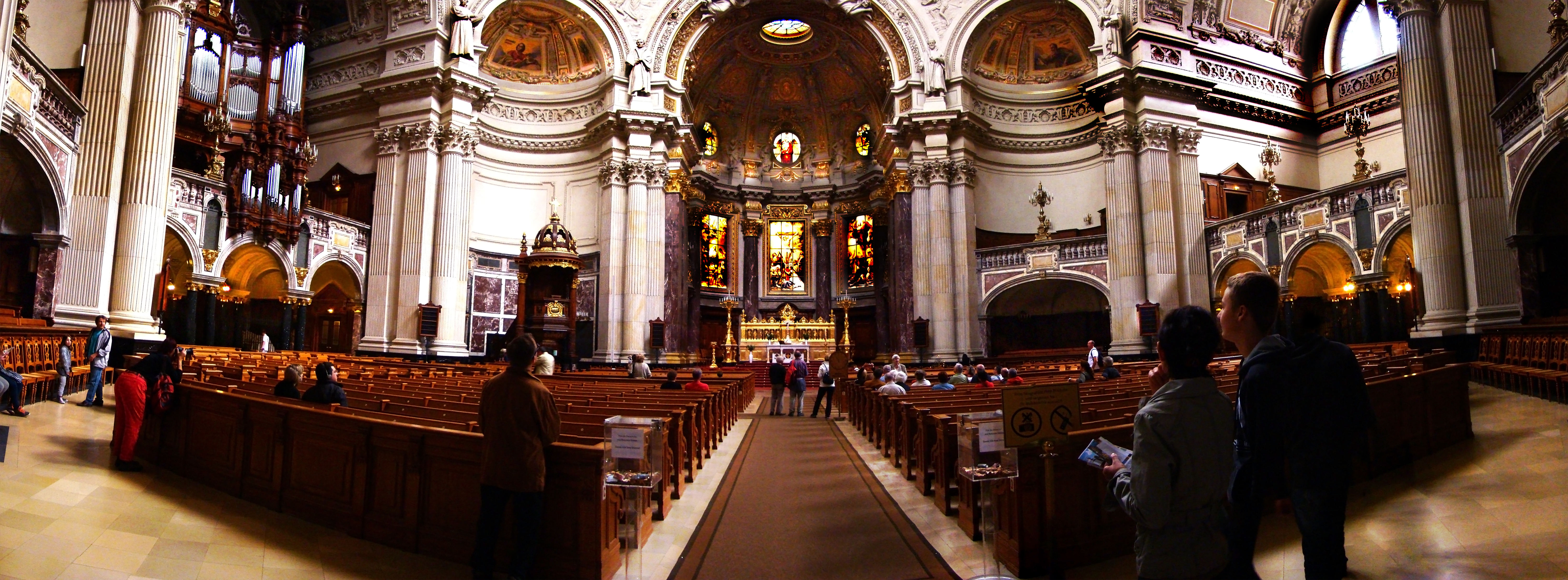 The panorama of Berlin Cathedral's interior.